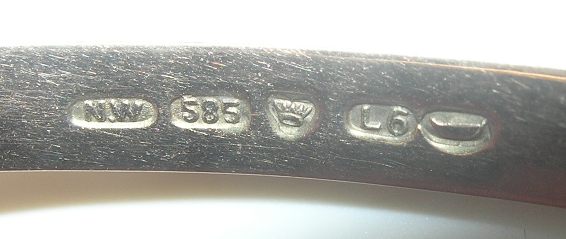 Mandatory Finnish markings on a golden bracelet. The flash is making the color look silver.